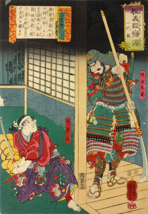 Yoshitsune with drawn sword in his room at an inn with Kumasaka Chôhan outside